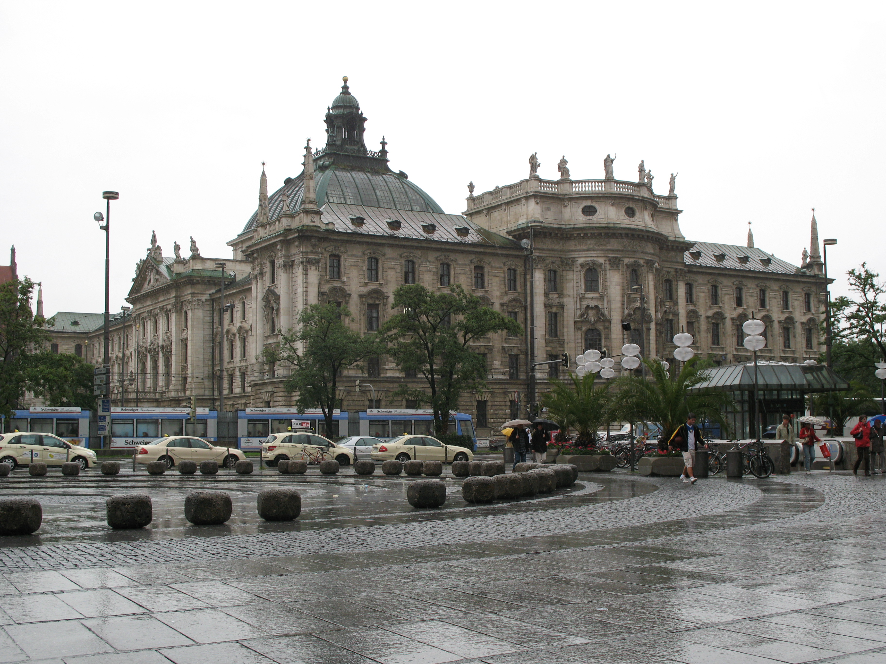 Karl's Plaza, Munich, Germany